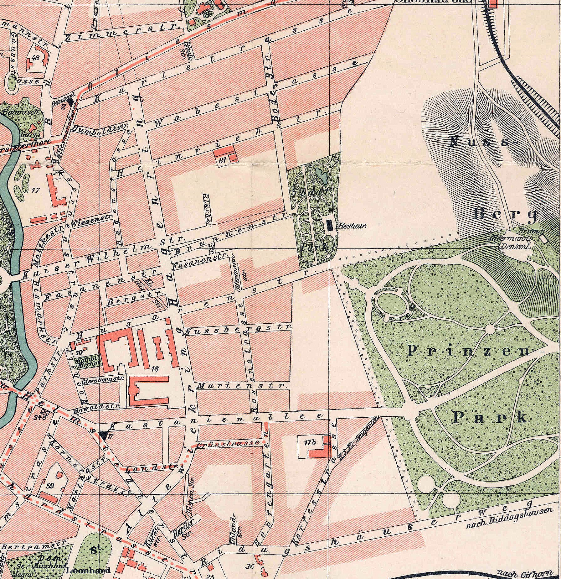 Braunschweig, Germany: The city’s Eastern Rim with Nussberg, Prinzenpark and Stadtpark from a map dating from 1899.